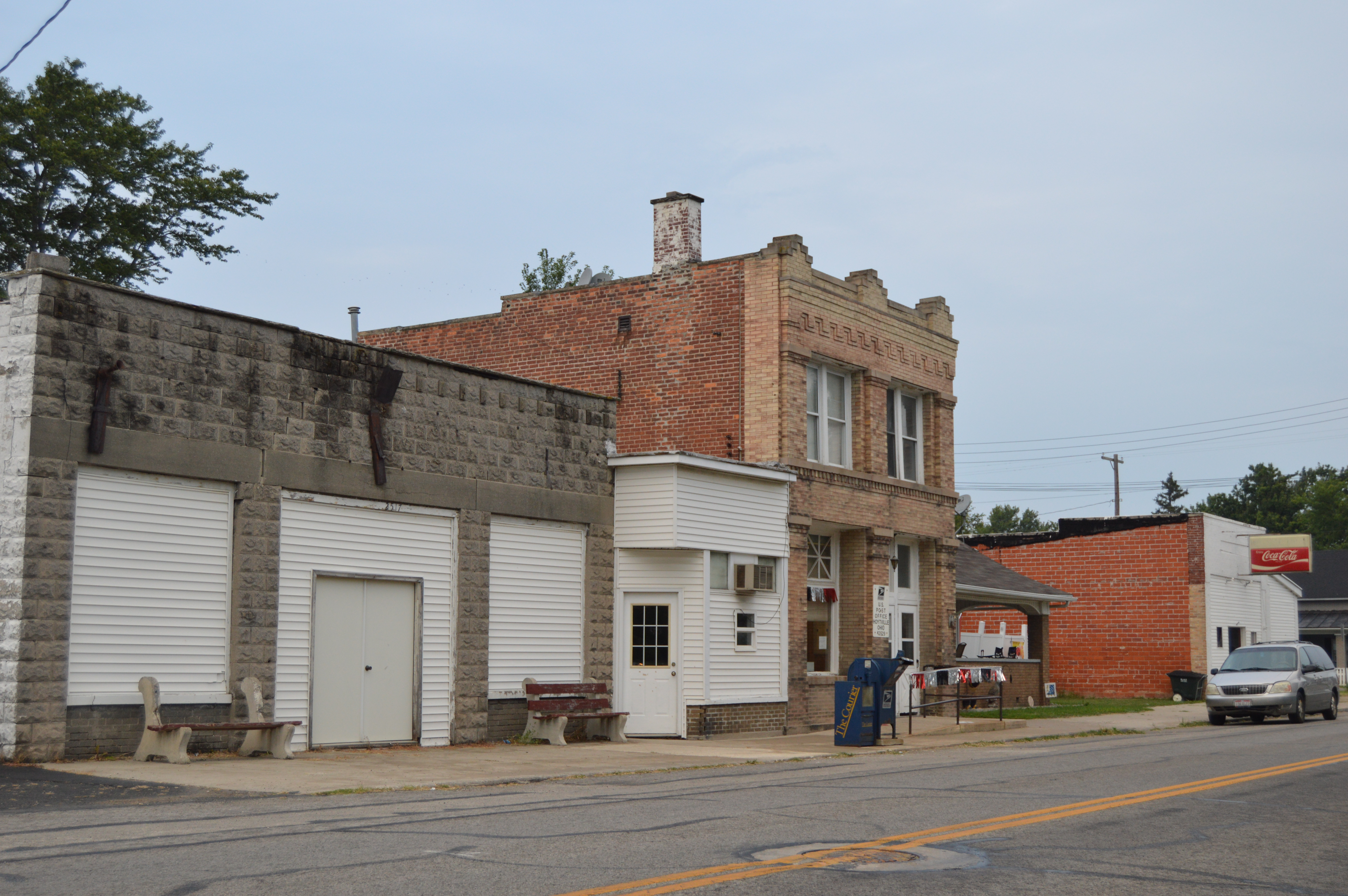 Buildings on the western side of Main Street (State Routes 18 and 235), seen looking north from Church Street, in Hoytville, Ohio, United States.